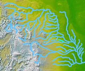 Keya Paha River ©2004 Matthew Trump